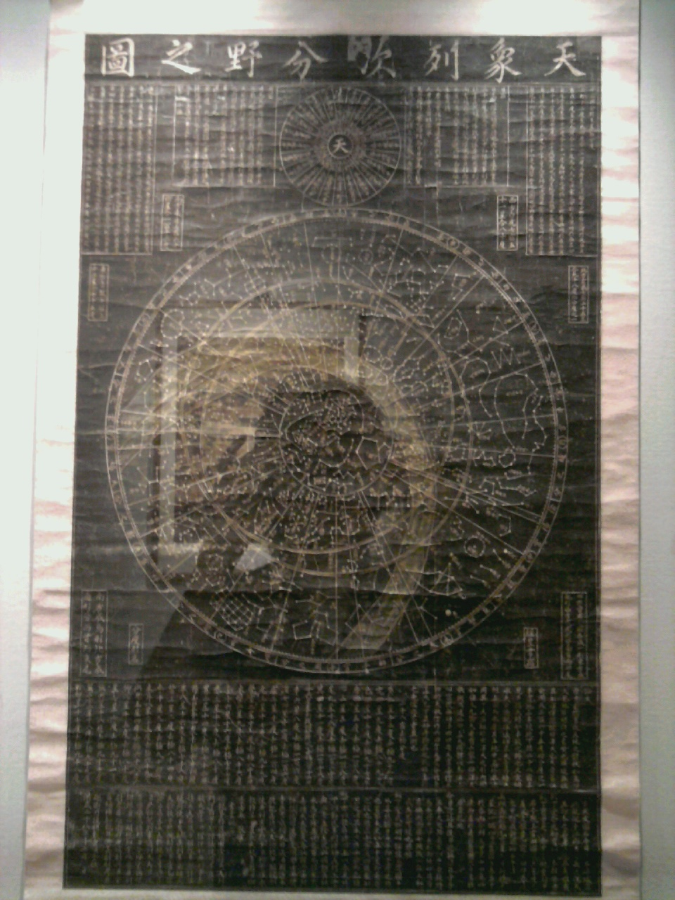 Cheonsang Yeolcha Bunyajido displayed in Seoul National University Kyujanggak Institute for Koreanology Studies